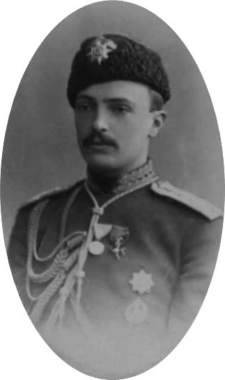 Grand Duke George Mikhailovich of Russia in his youth